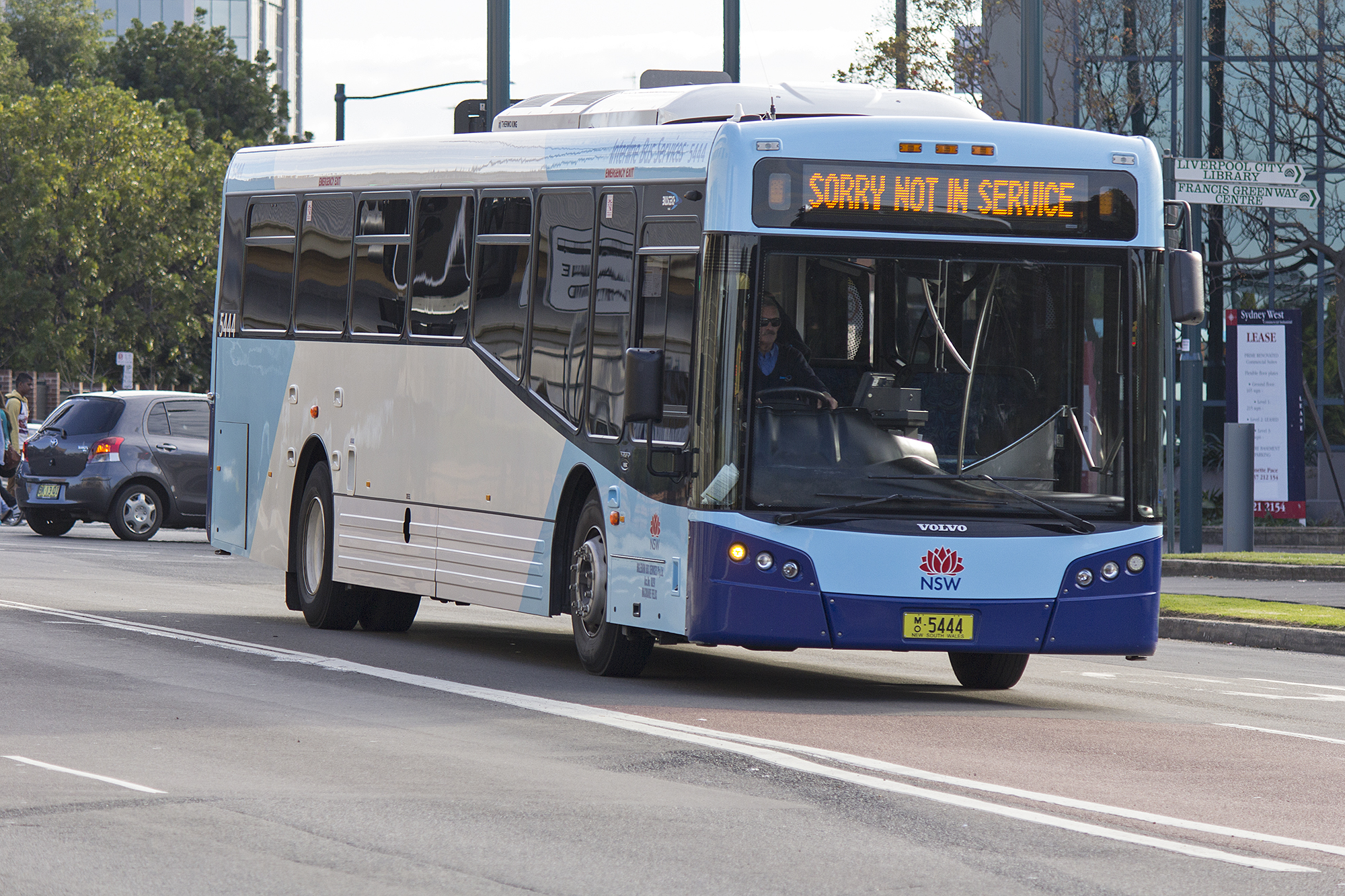 Transport NSW liveried (mo 9394), operated by Interline Bus Services, Bustech 'VST' bodied Volvo B7RLE on Moore Street in Liverpool, New South Wales.